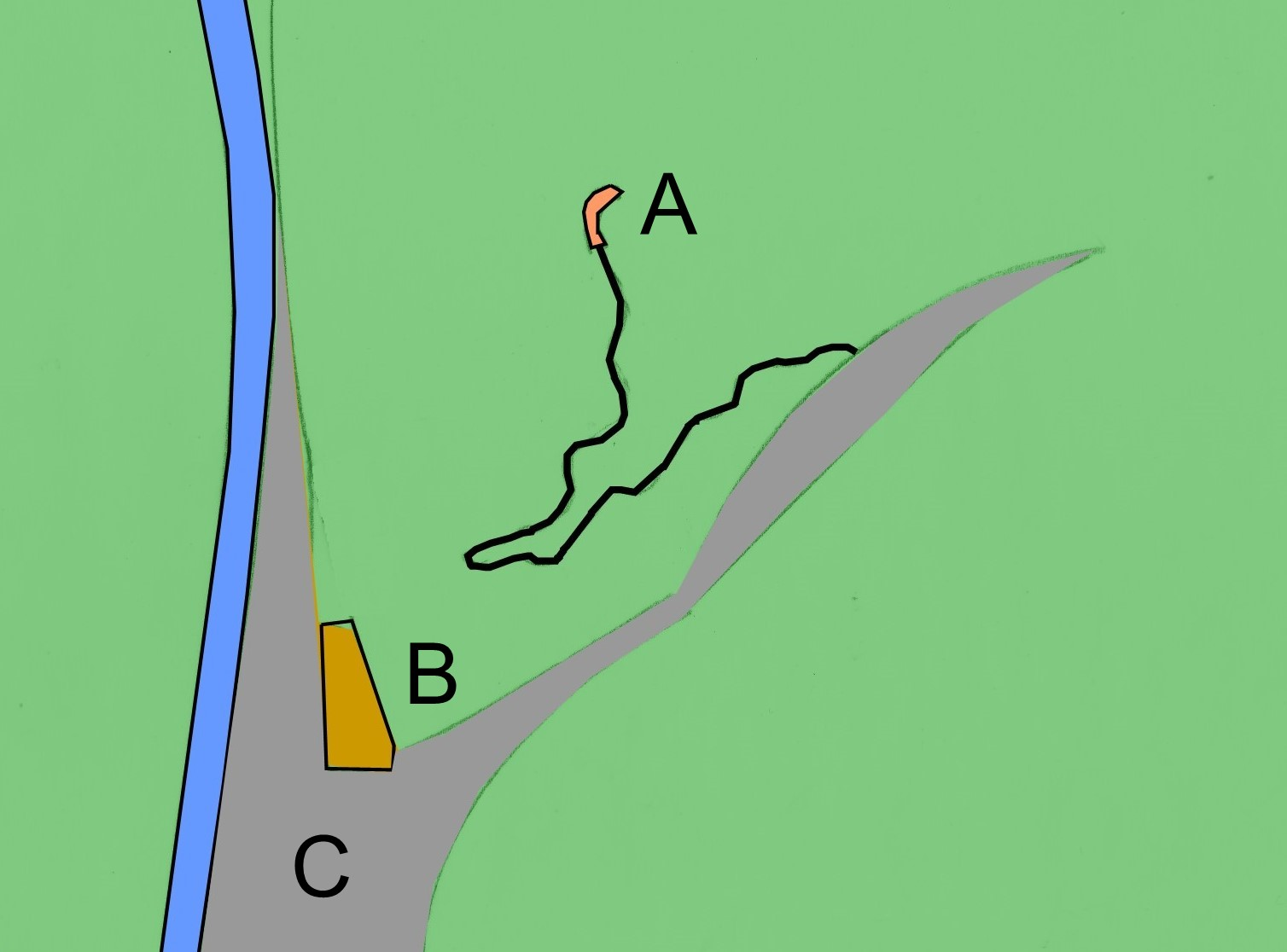 Takahashi (Pref. Okayama) and castle